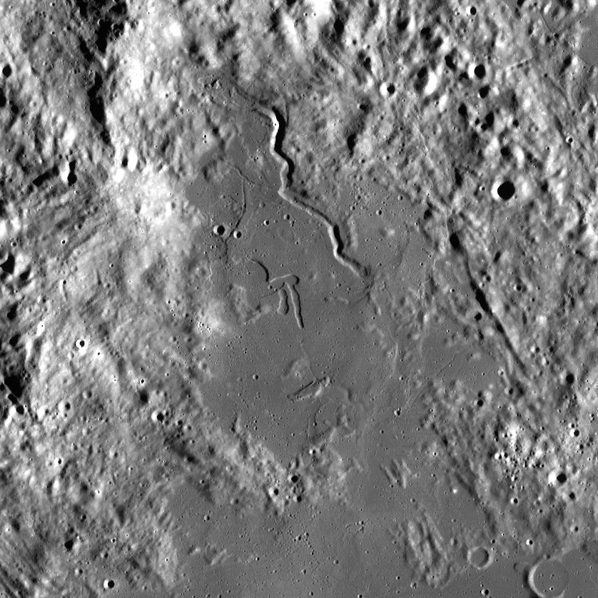 Sinus Fidei on the Moon. Mosaic of photos by Lunar Reconnaissance Orbiter, made with Wide Angle Camera. Size of the image is 100×100 km, north is up.